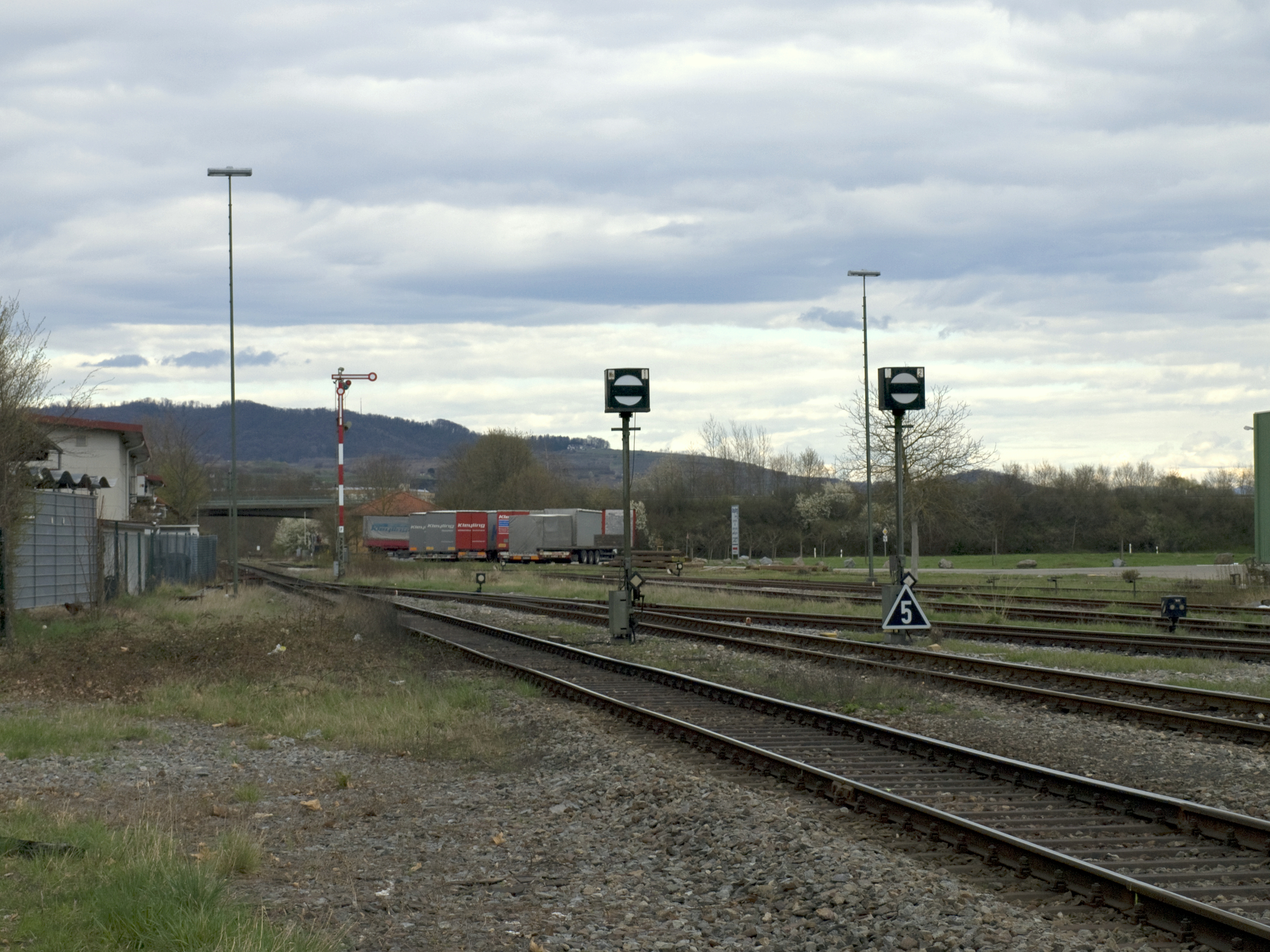 Semaphore signal and railway switch stands at Breisach train station